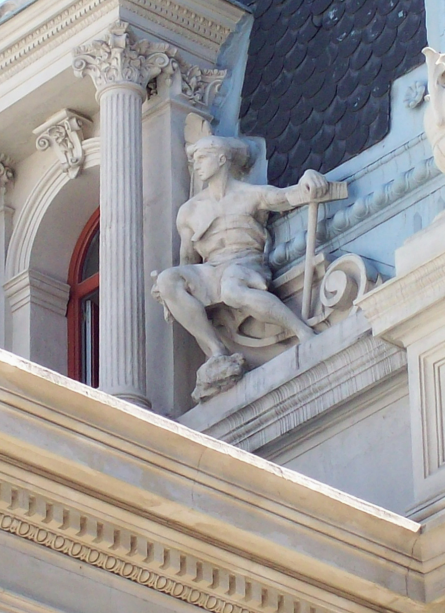 Detail of the façade of the M1 building of the School of Mines of Madrid (Spain), at 21 Calle de Ríos Rosas (street). It was projected in 1884 by Ricardo Velázquez Bosco and built between 1886 and 1893. The sculpture was made by Vicente Oms.